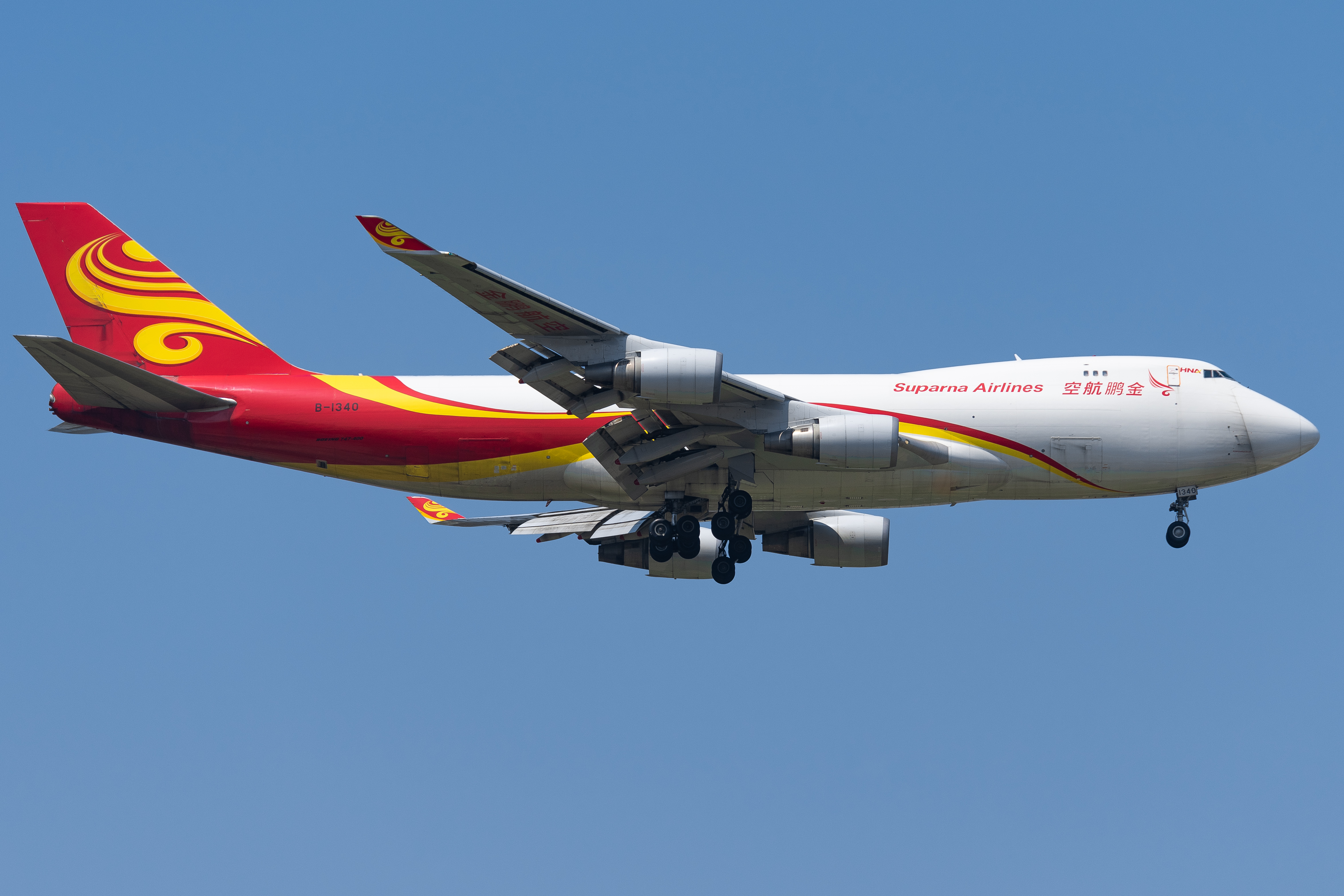 Yangtze 7408 from Moscow-DME, landing at 36R. Meanwhile, CI511 was approaching to runway 01!